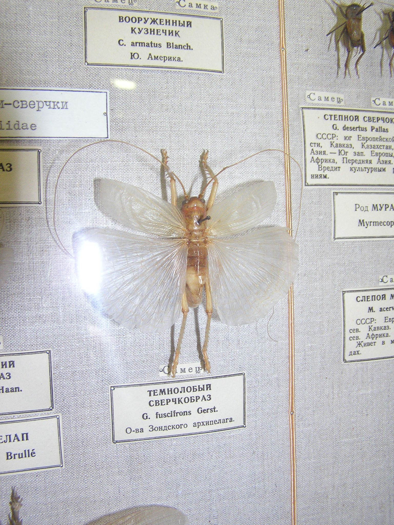 Gryllacris fuscifrons